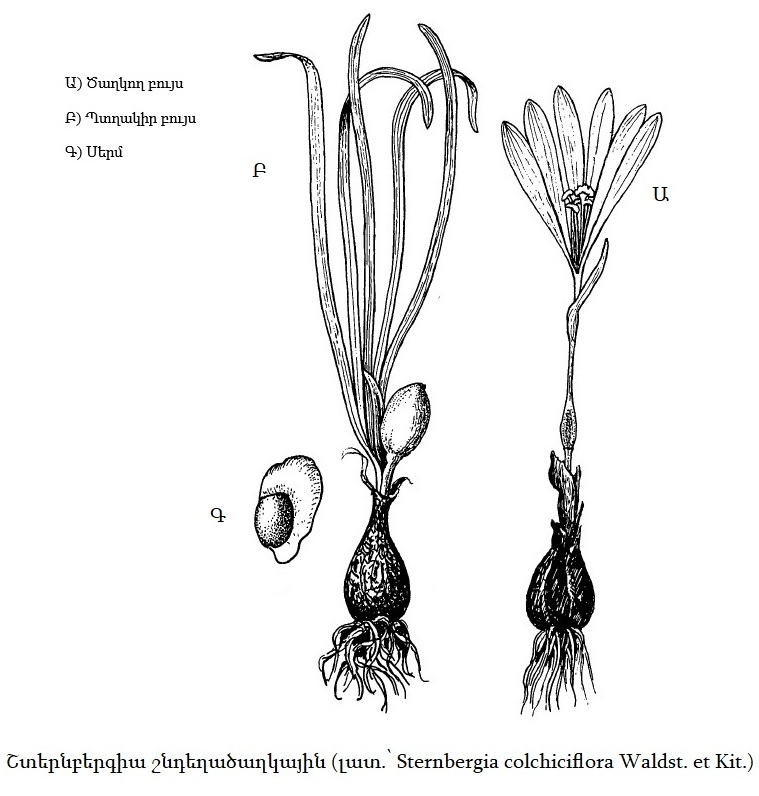 Diagram of the plant showing different developmental stages.